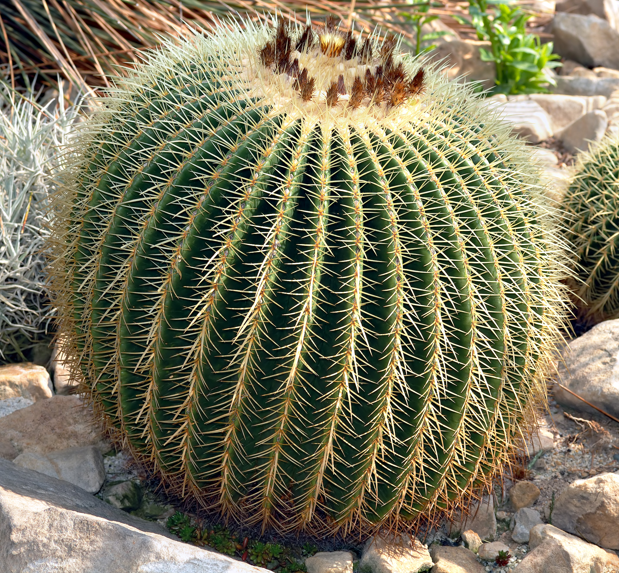 This image shows a Golden Barrel (Echinocactus grusonii).